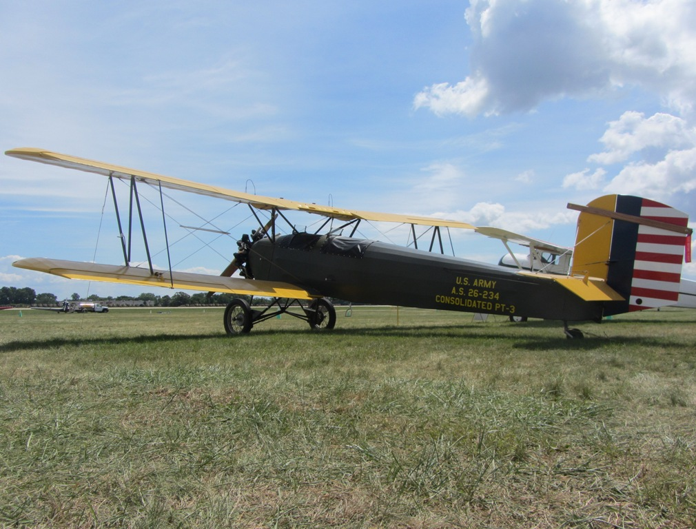 Consolidated PT-3